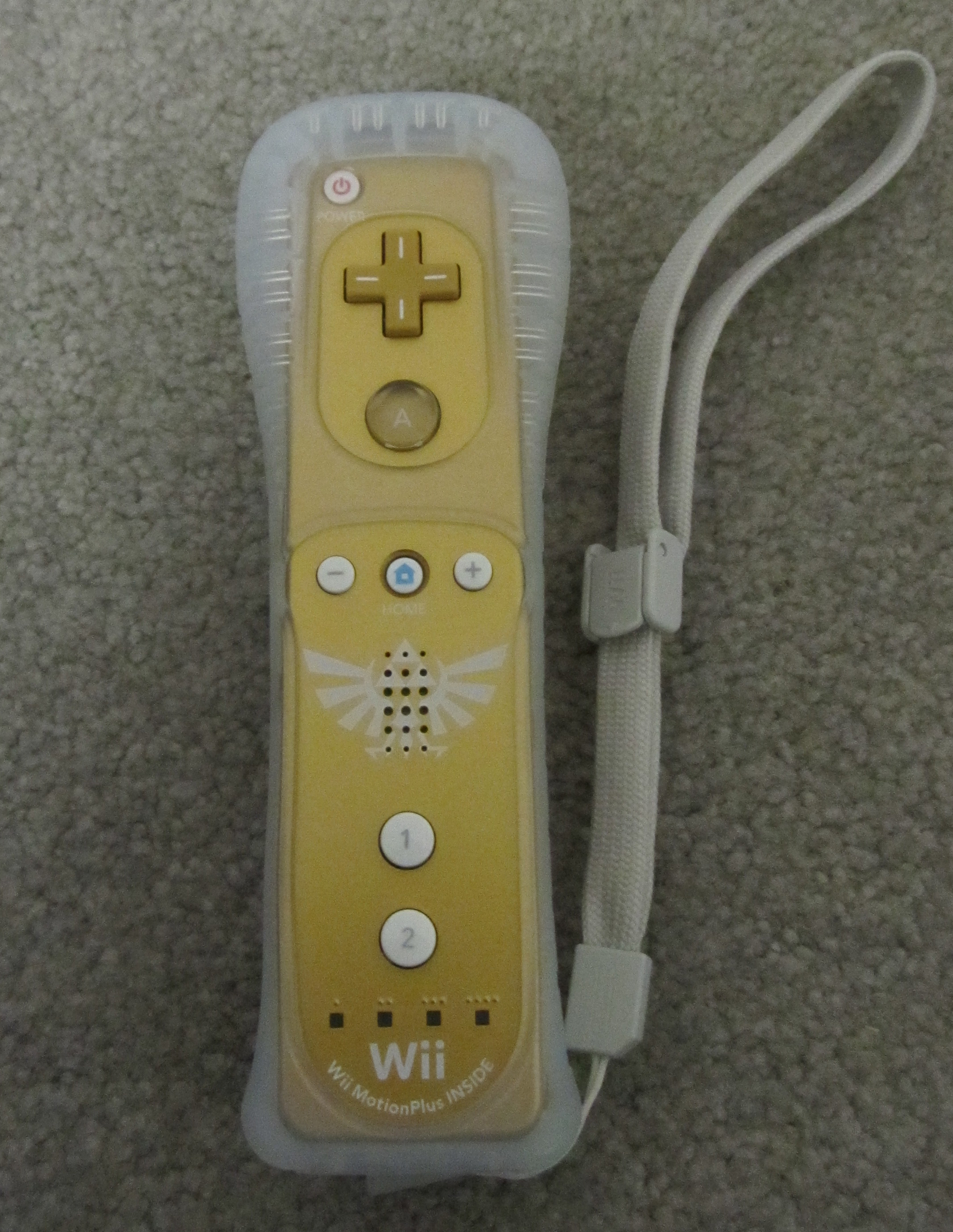 A newly unboxed limited-edition gold Wii Remote Plus that was bundled with the Legend of Zelda: Skyward Sword